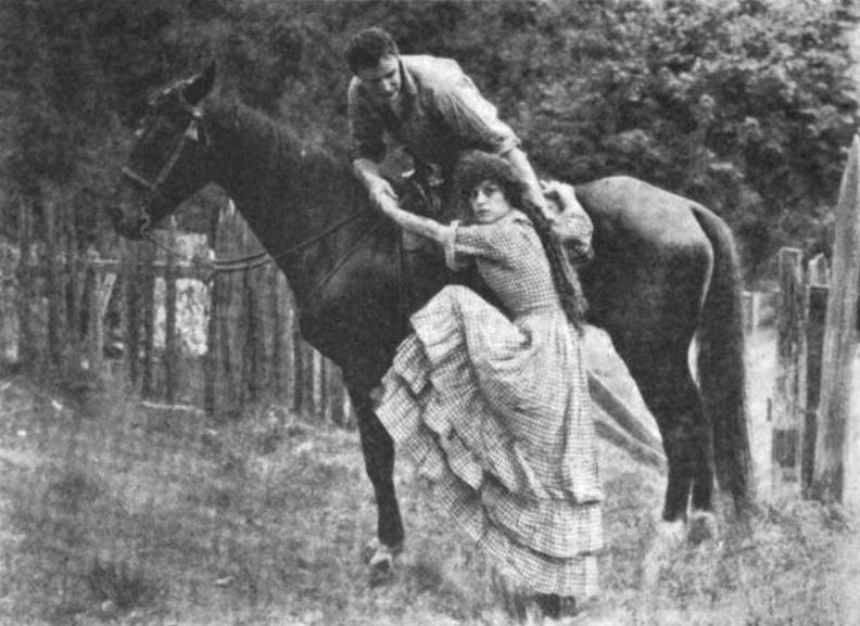 Photograph scanned from June 1915 issue of Overland Monthly. Shown is actress Beatriz Michelena and actor House Peters in a publicity still made for the 1914 film Salomy Jane.